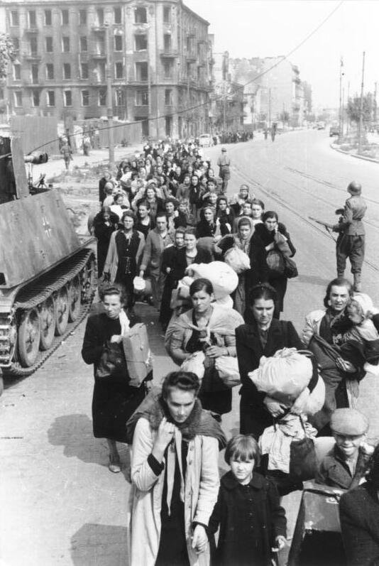 Warsaw Uprising